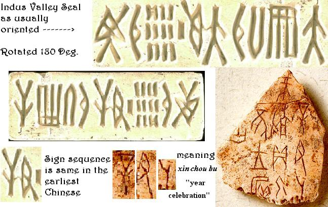 Study of an Indus Valley Inscription showing comparison to ancient Chinese "bone script".